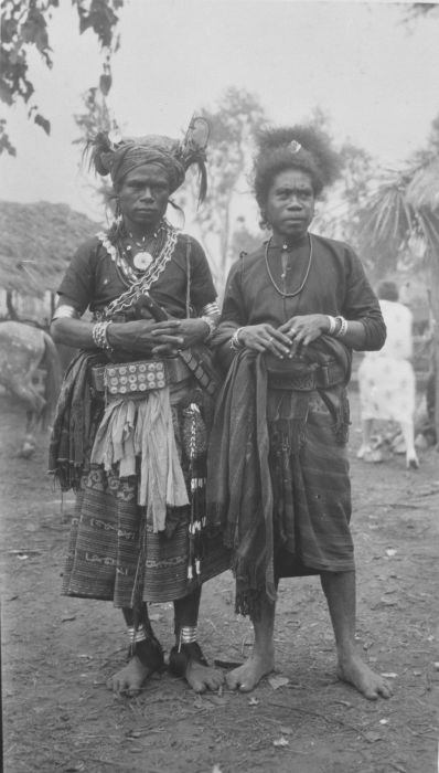 Portrait of two residents of Flores with ikat attire, possibly from the Ngella Village